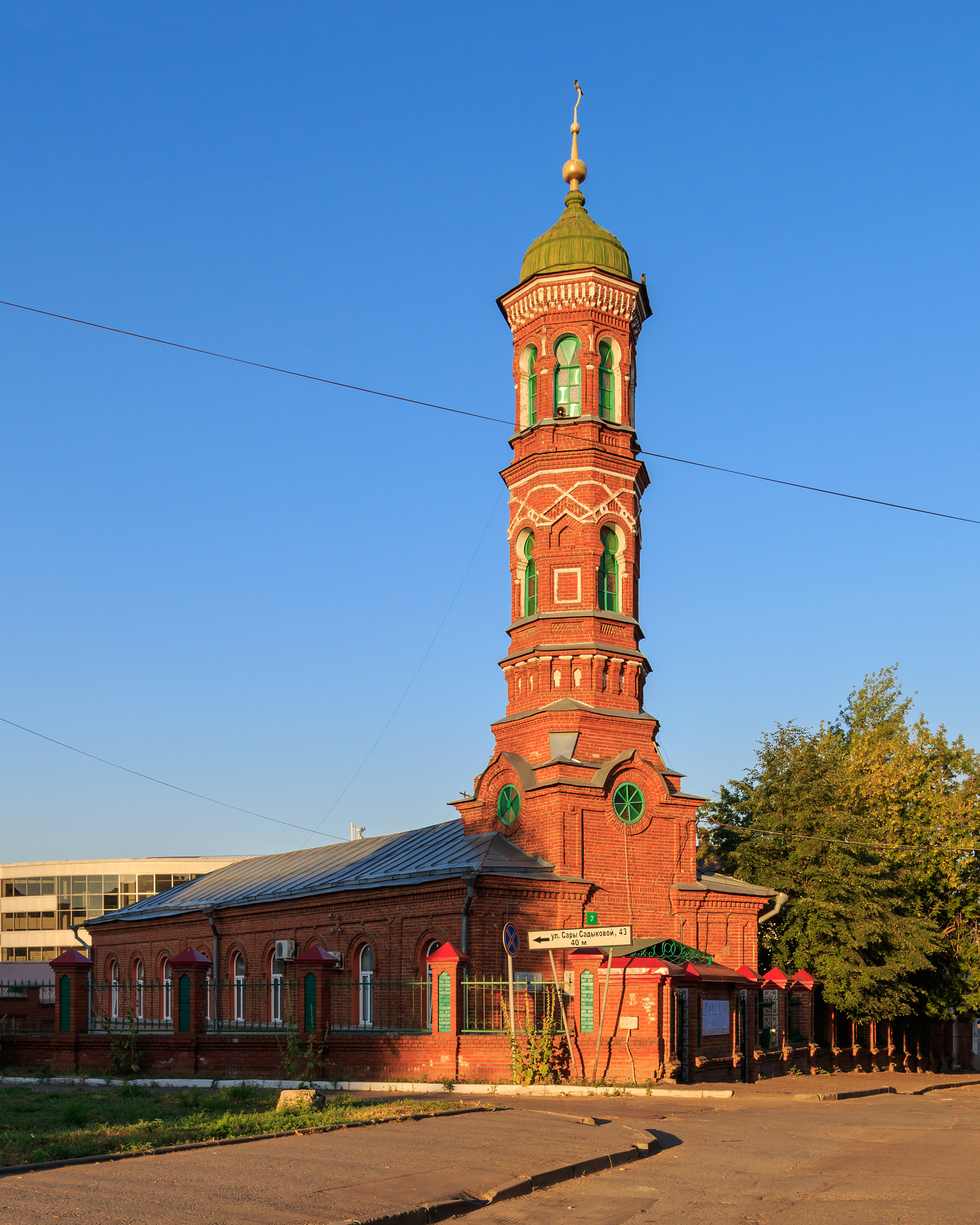 Burnay Mosque in Kazan, Russia